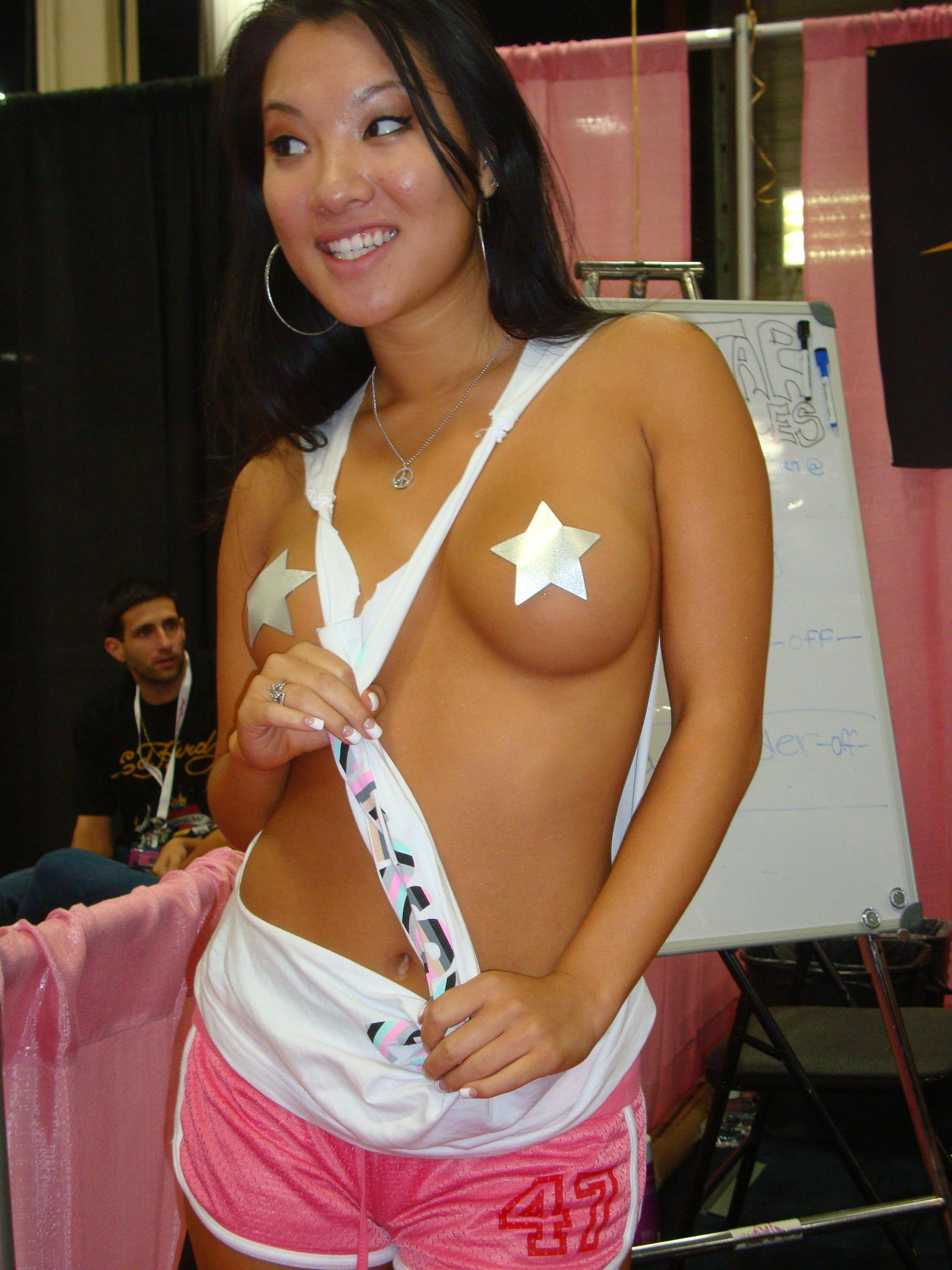 Asa Akira at Exxotica 2008.